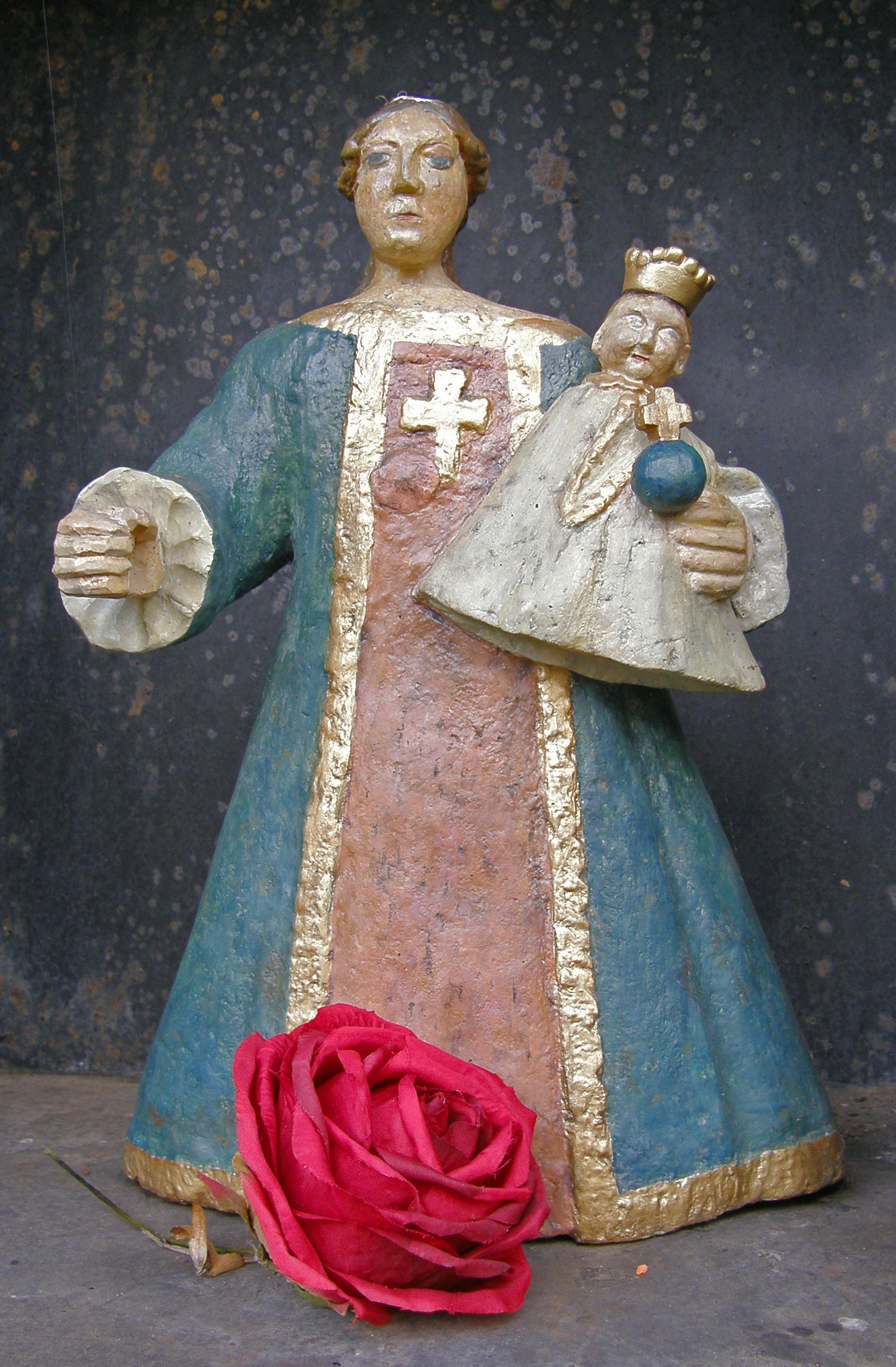 Pilmgimage site at Hersberg, Luxembourg: Statue of the Virgin Mary with Jesus in the hollow trunk of a remarkable oak.